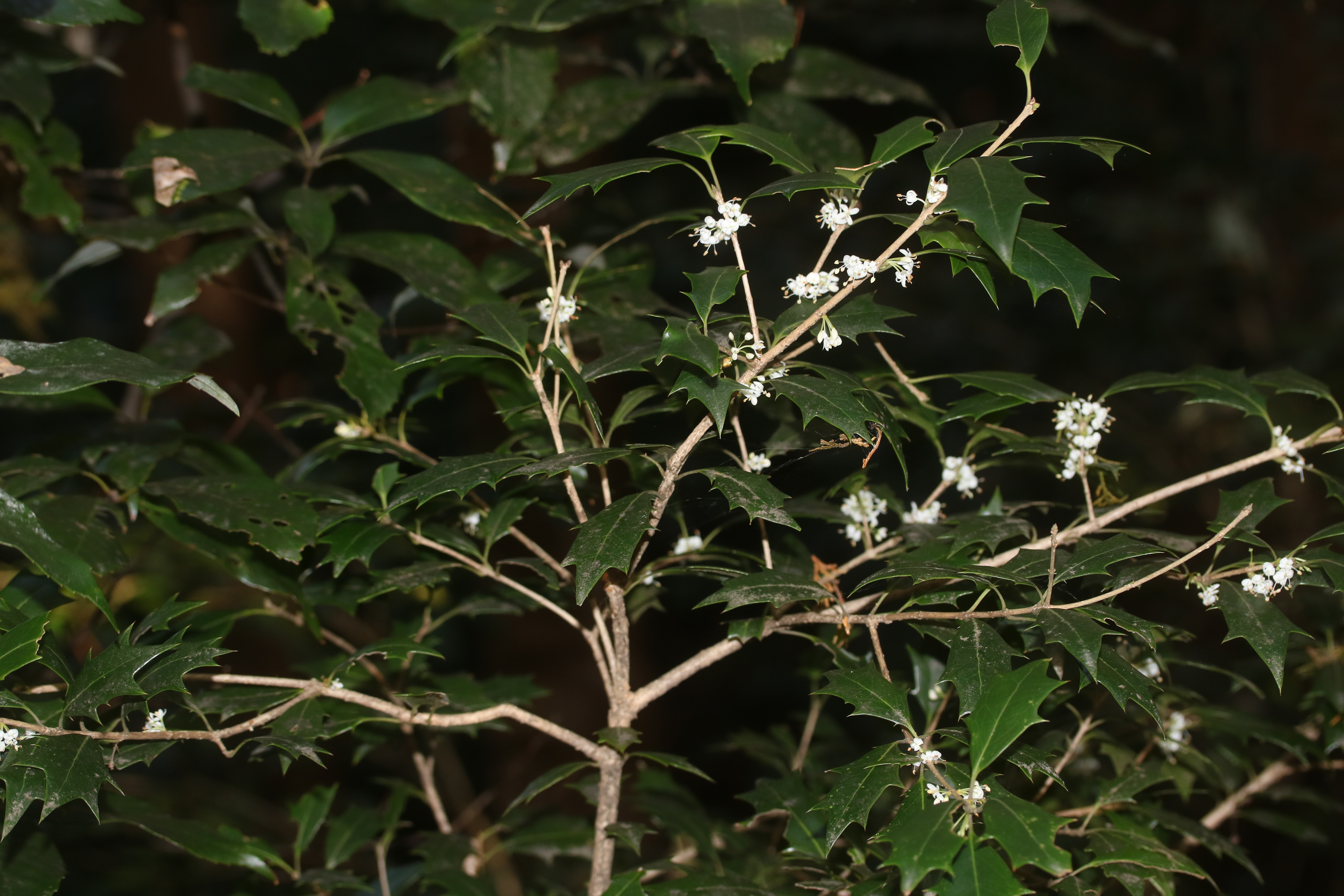 Osmanthus heterophyllus in Kaisho Forest, Seto, Aichi Prefecture, Japan.